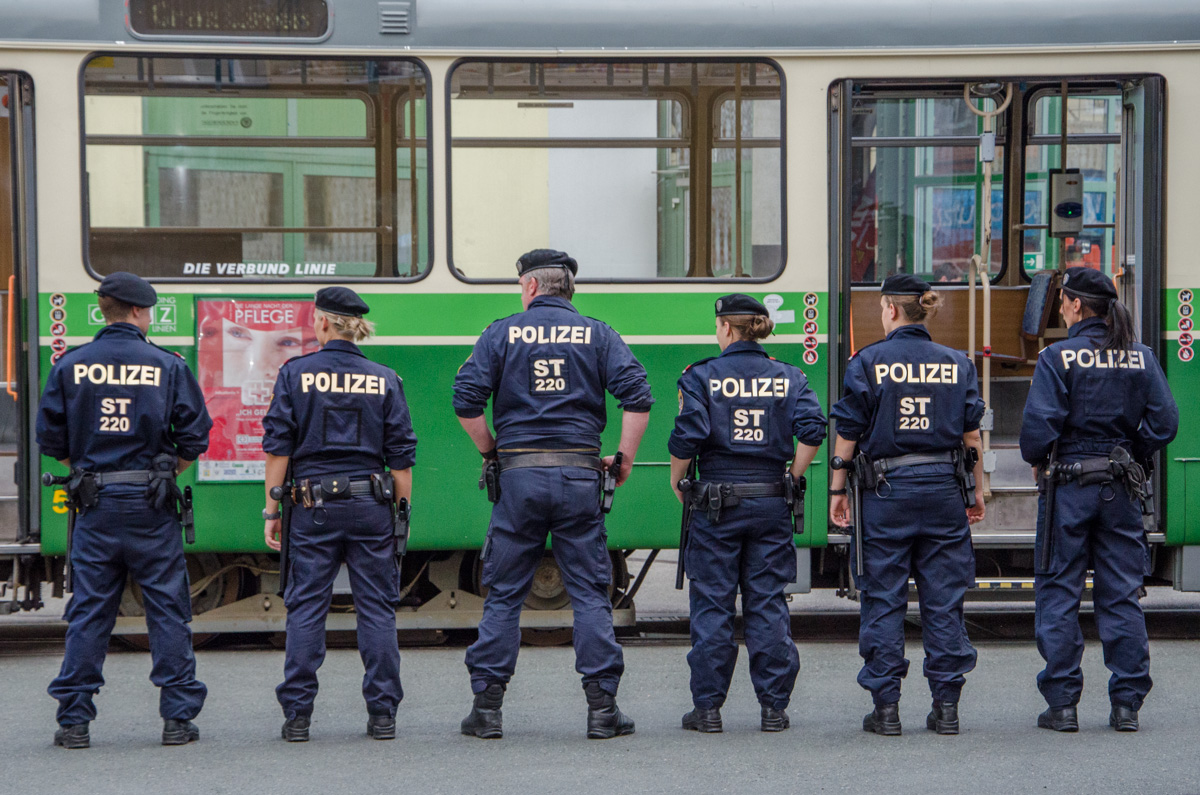 Fotos (c) Beatrice Hart / Holding Graz